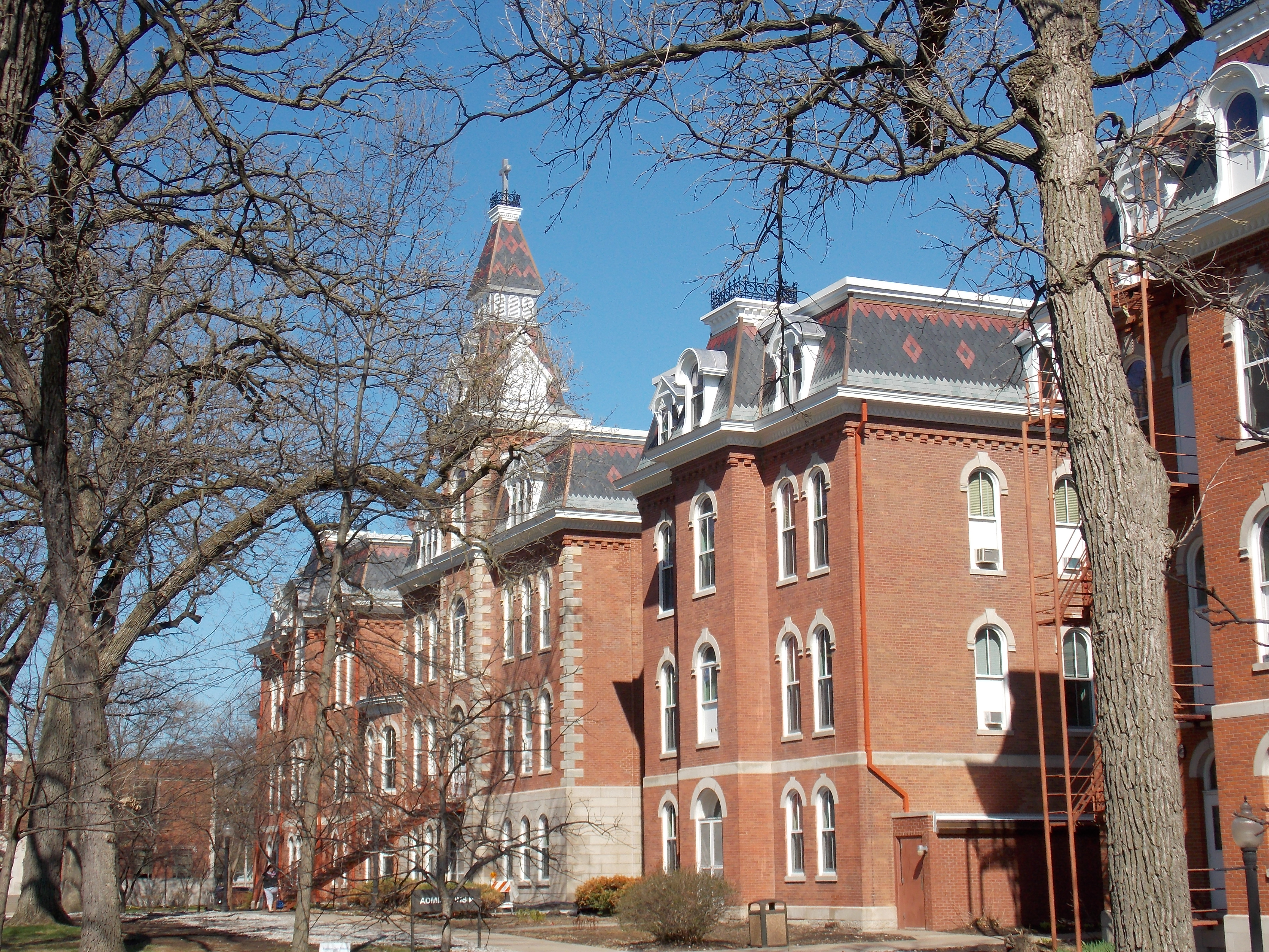 Ambrose Hall at St. Ambrose University in Davenport, Iowa. It is listed on the National Register of Historic Places.